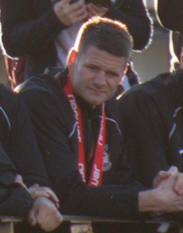 Michael Nelson. Image cropped from original at flickr.